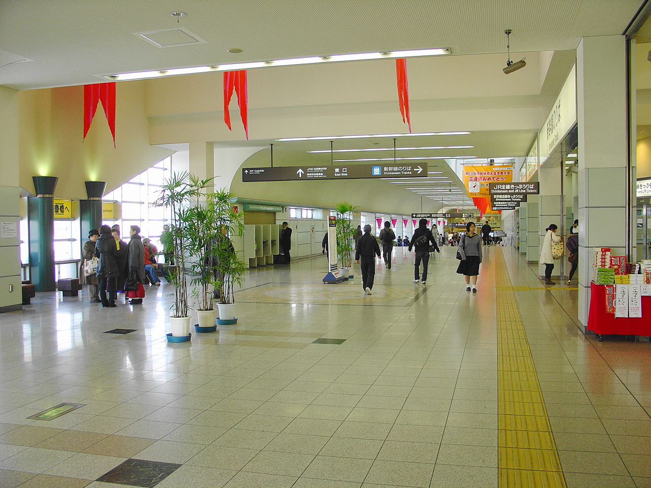 Central Japan Railway, Concourse of Toyohashi Station.(Toyohashi City, Aichi Prefecture, Japan)